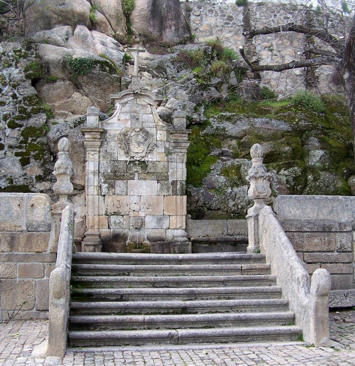 Is the village of Castelo Novo (New Castle).Portugal Link (PT): user:sacavem (pt) (usuário:sacavem) Link (PT)